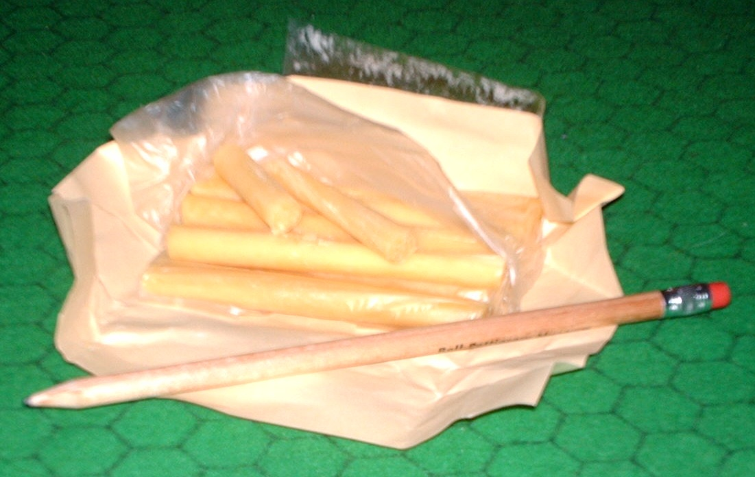 An unwrapped packet of star rock, a traditional Scottish confectionery. A pencil has been included for purposes of scale.